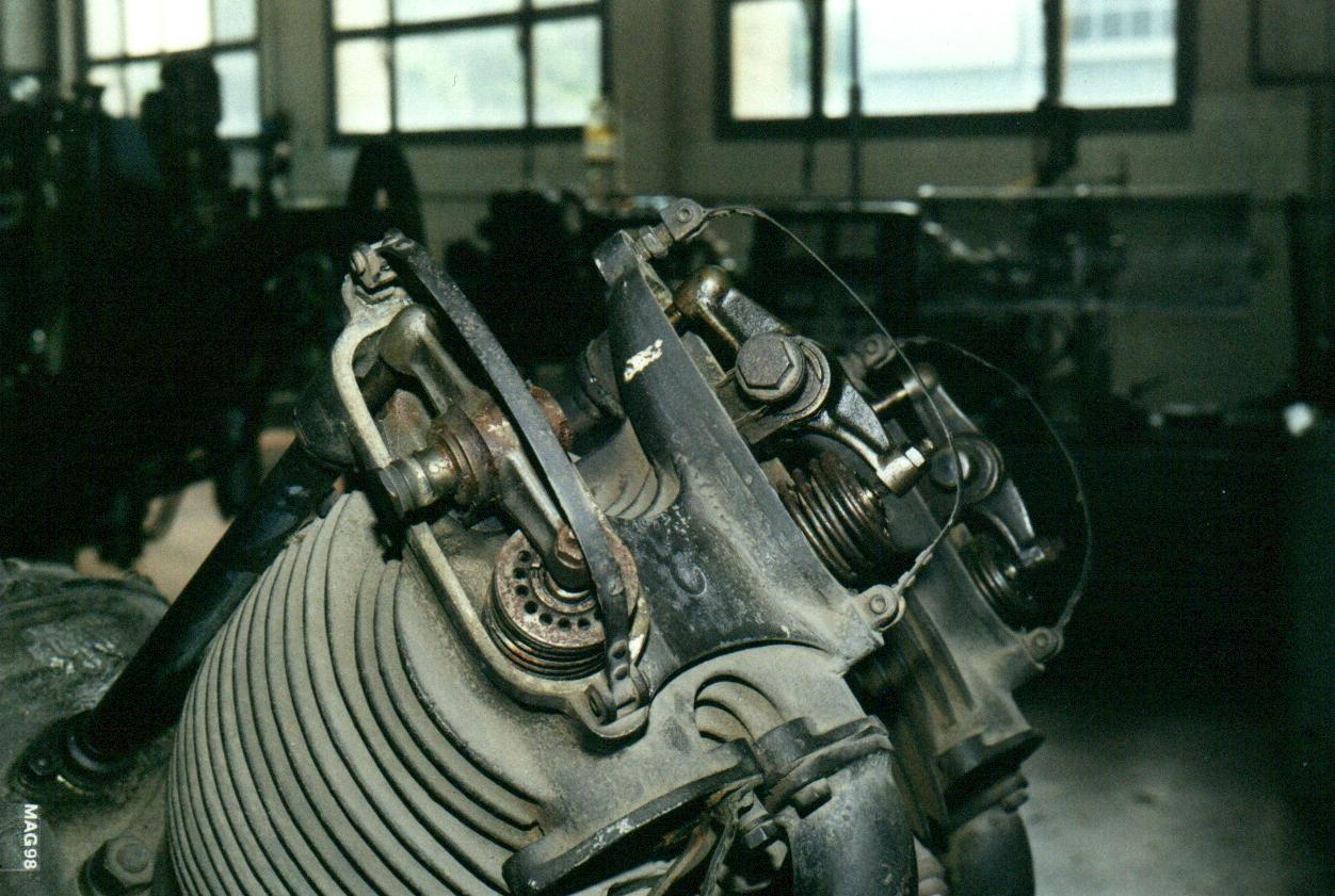 Fiat A.50 radial aircraft engine at Istituto Tecnico Industriale Statale (Technical Industrial State Istitute) "Guglielmo Marconi" in Forlì, Italy. Rocker arms detail.